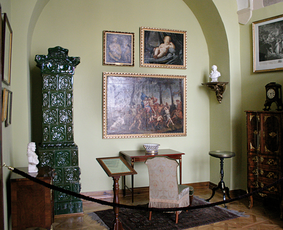 a photo of our museum's exhibiton